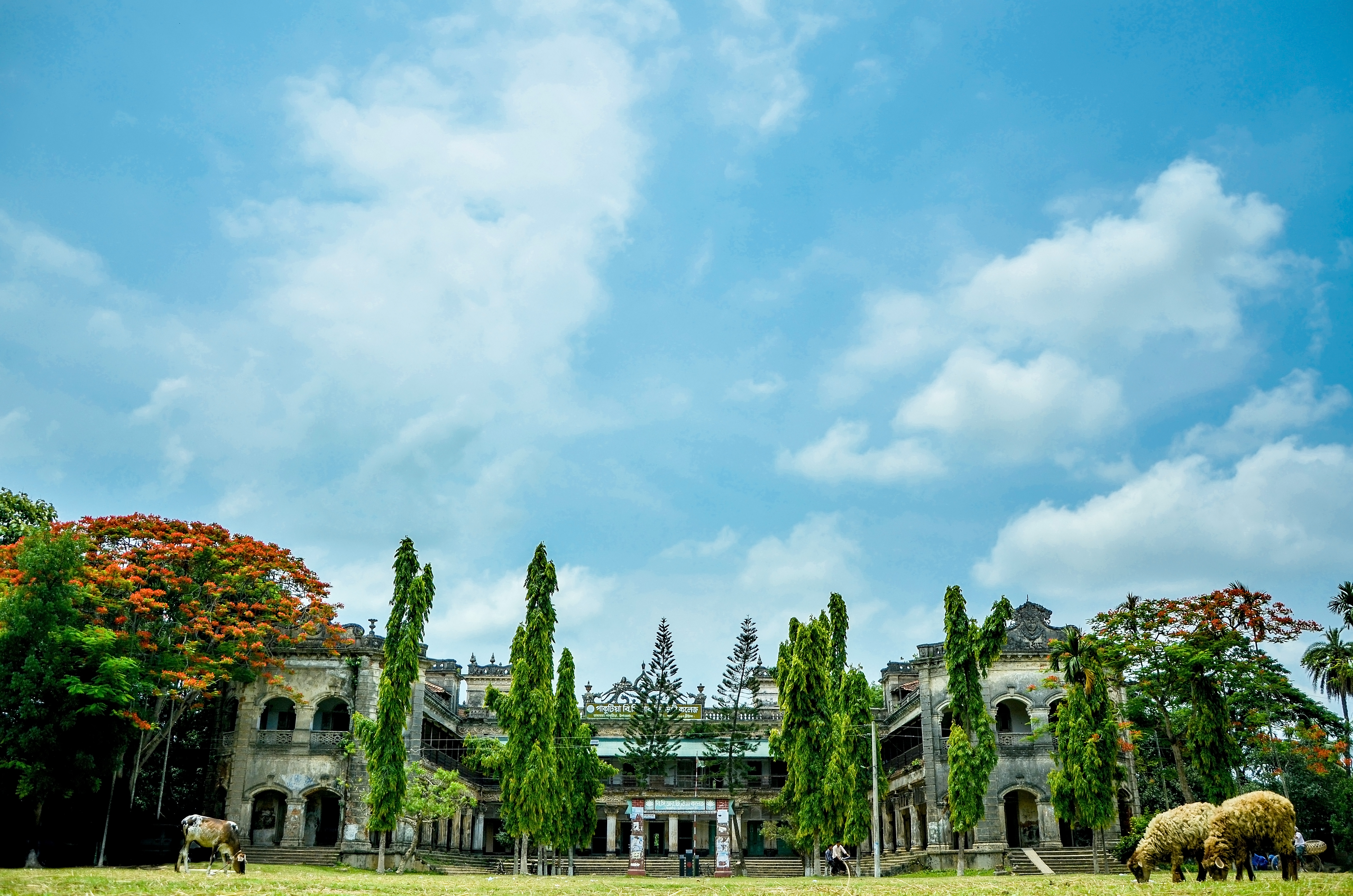 Pakutia Palace, Tangail